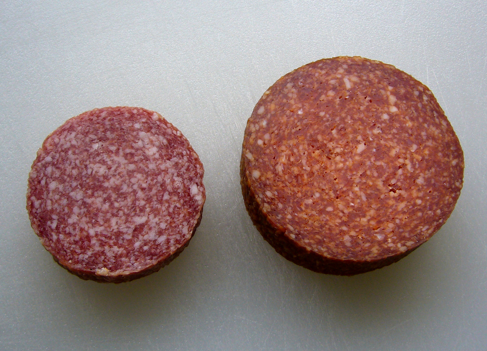 Szegedi: A Hungarian salami usually produced during Christmas. Neil at Central Market says it tastes like bacon, which I can only agree with in that it's rather salty, and has a bit of smoke, but is not rich and fatty like bacon is. Paprika: Very little paprika flavor or color.